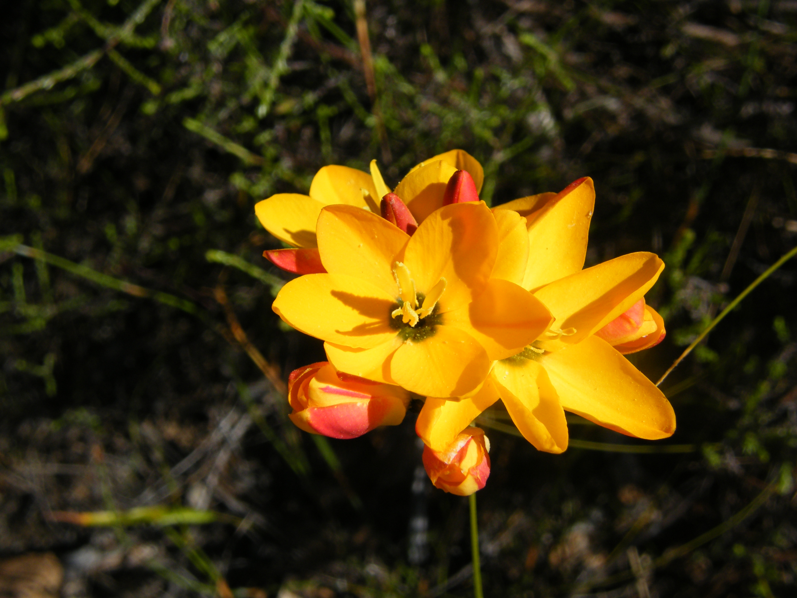 Yellow Ixia